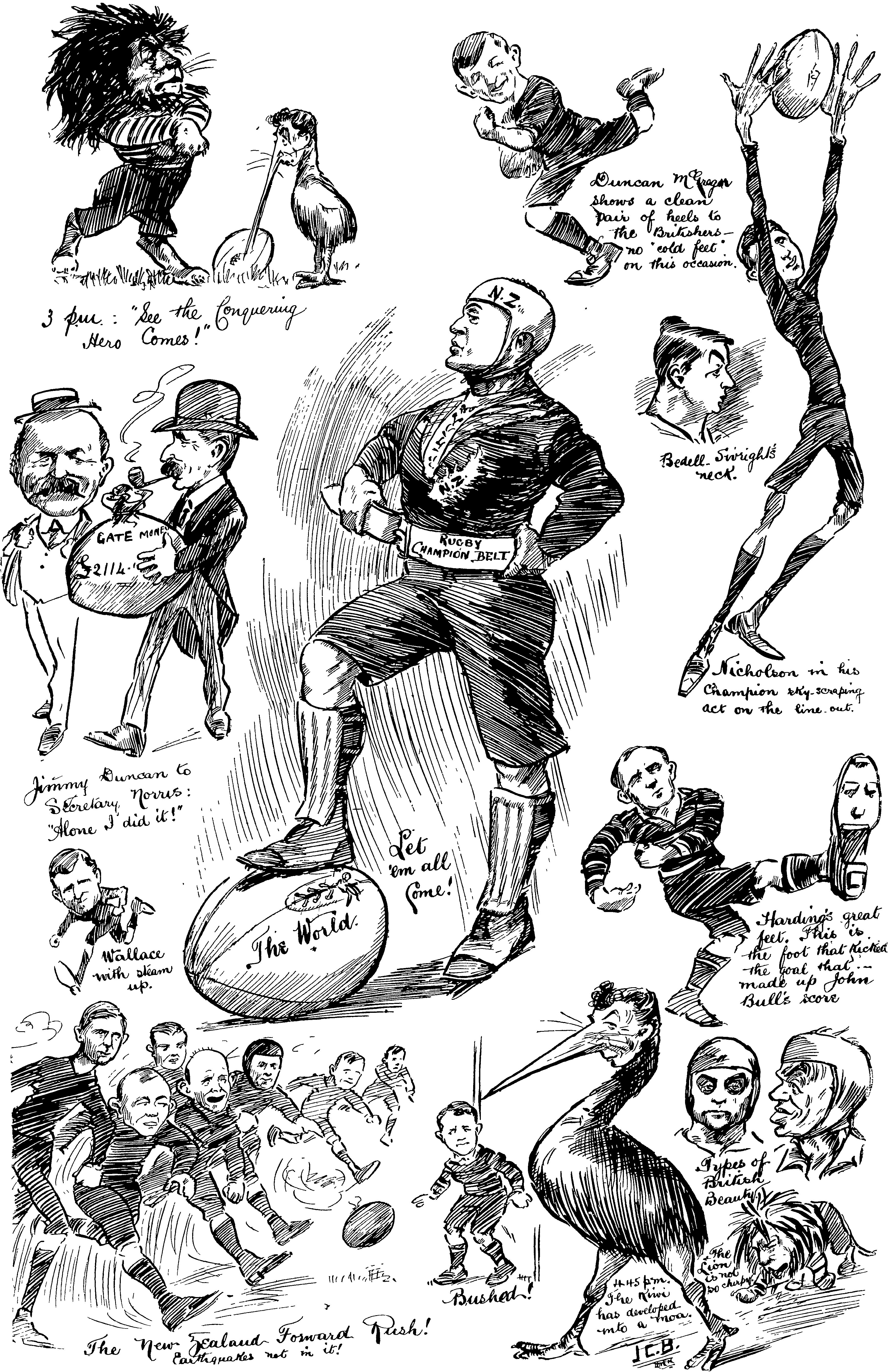 Caption reads: "THE TRIUMPH OF JOHN BULL, JUNIOR. Episodes of Fact and Fancy in the Struggle for Rugby Supremacy." A number of caricatures of players and officials from the rugby union match played between the 1904 British Isles rugby team and New Zealand on 13 August 1904 in Wellington, New Zealand. The match was the first test match played by New Zealand within the country. People figured in the image include: David Bedell-Sivright, Jimmy Duncan, Billy Wallace, Duncan McGregor, George Nicholson, Percy Bush, Arthur Harding.